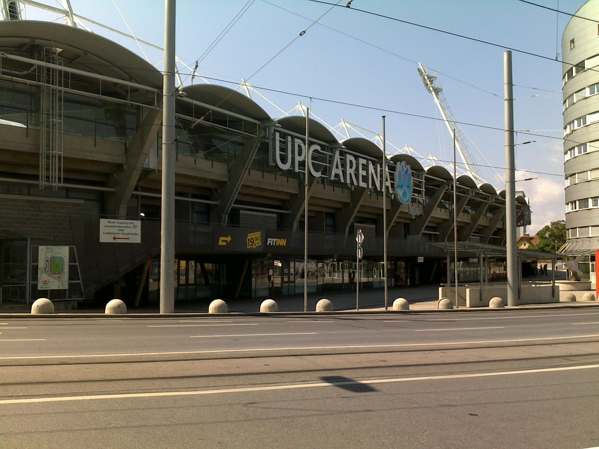 The North-Side of the UPC-Arena in Graz (Austria)